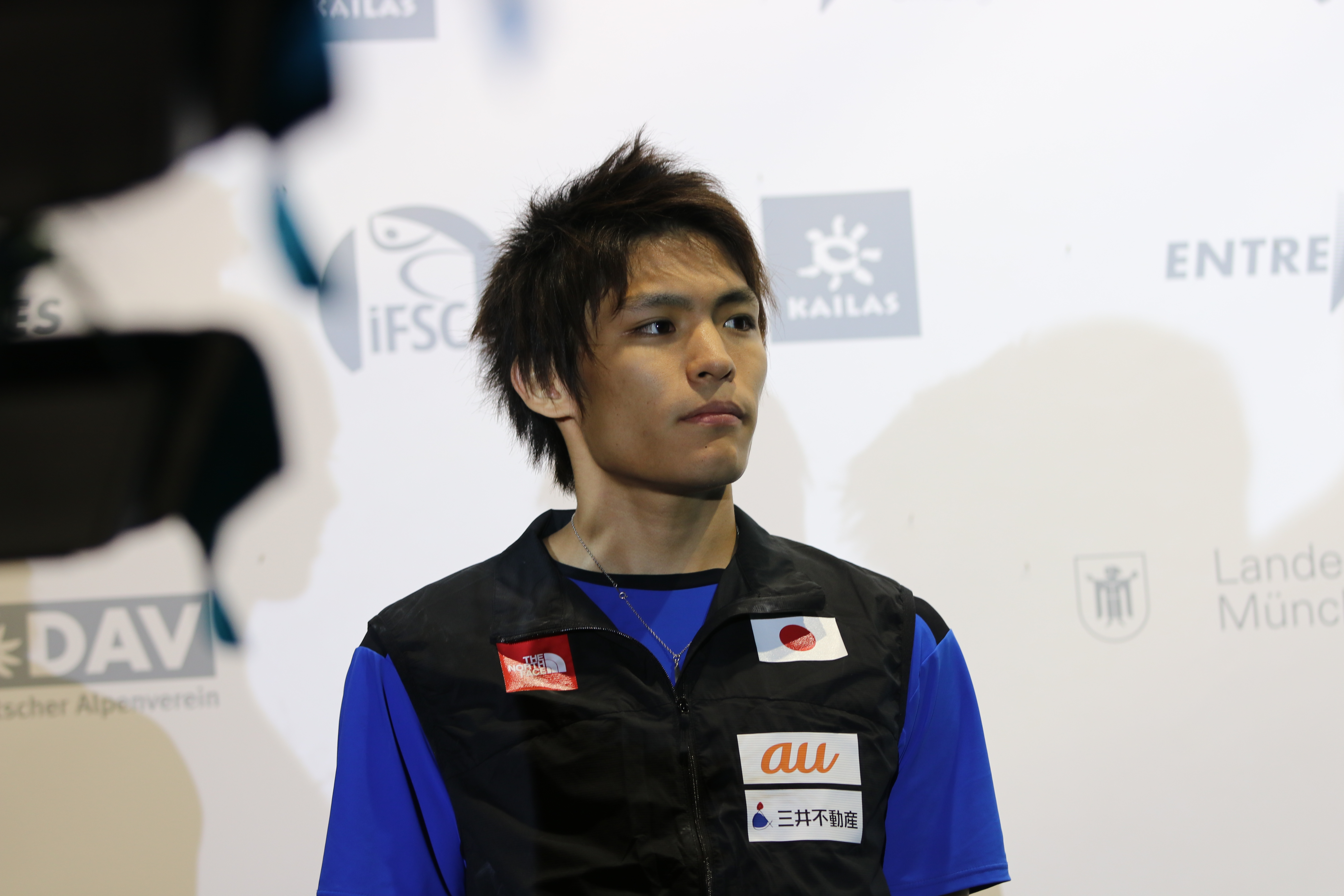 Tomoa Narasaki, sports climber from Japan, at the Boulder Worldcup 2017 in Munich, Germany